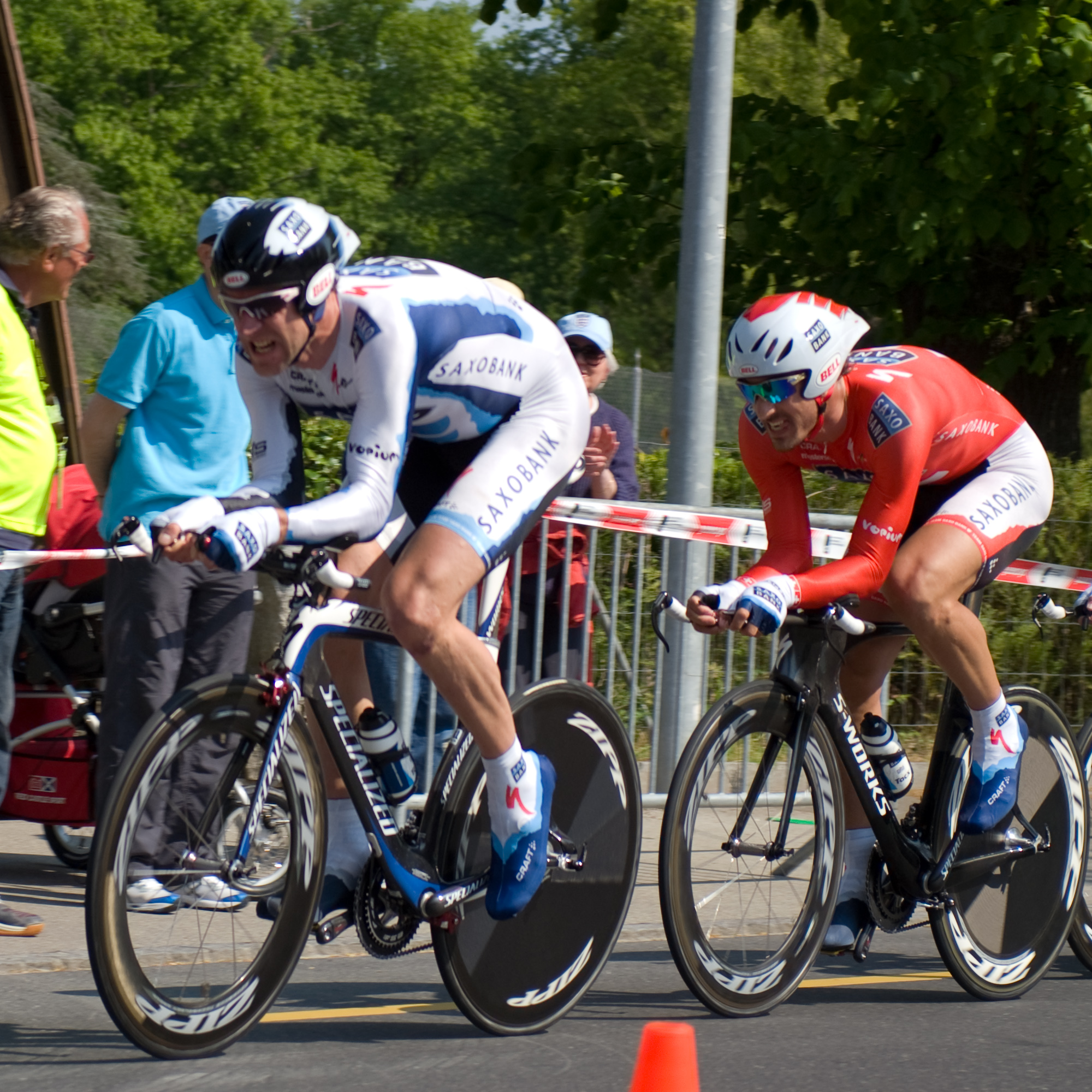 Tour de Romandie 2009 - 3rd stage - team time trial - Jens Voigt & Fabian Cancellara